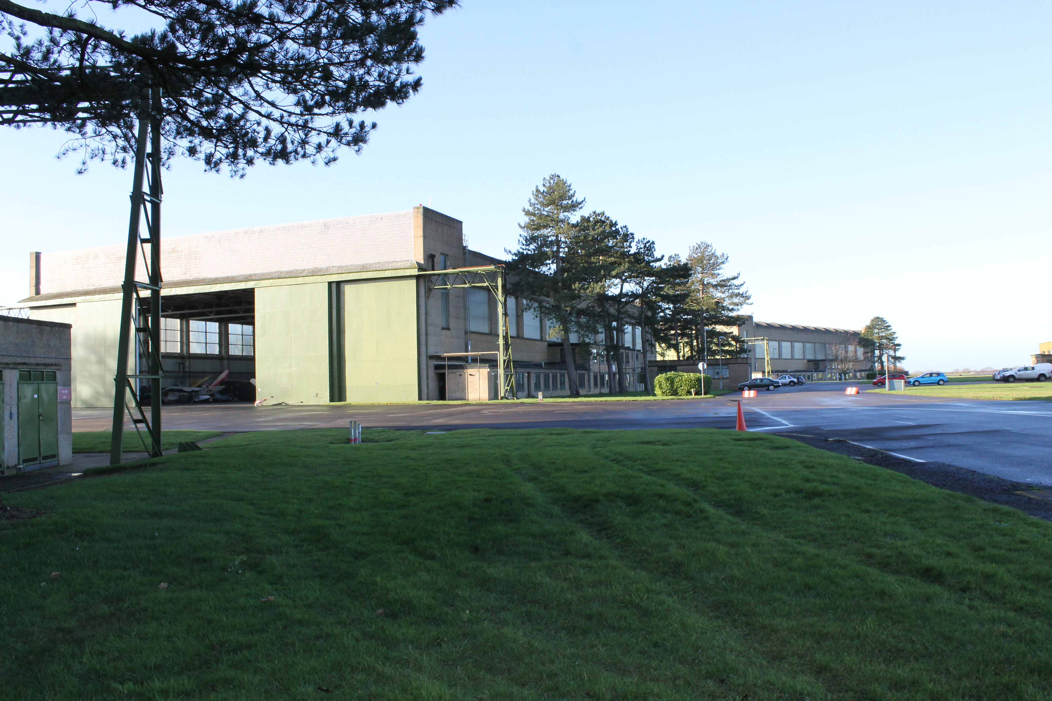 Hangars at RAF Wyton, Cambridgeshire, England on a surprisingly fine day in December 2013.